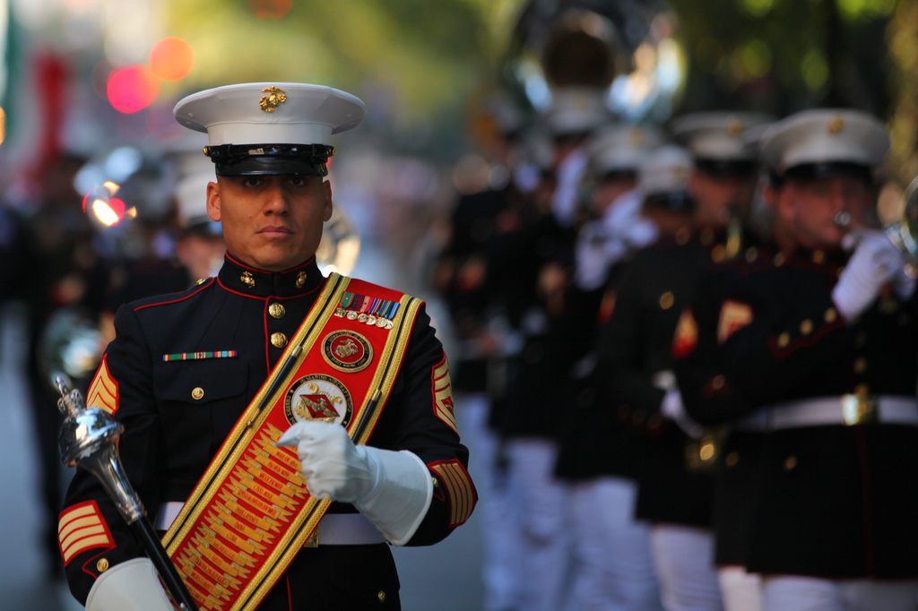 Gunnery Sgt. Victor Miranda, 2nd Marine Aircraft Wing Band drum major and a New York native, marches the band up 5th Ave during the annual Columbus Day Parade in 2010.